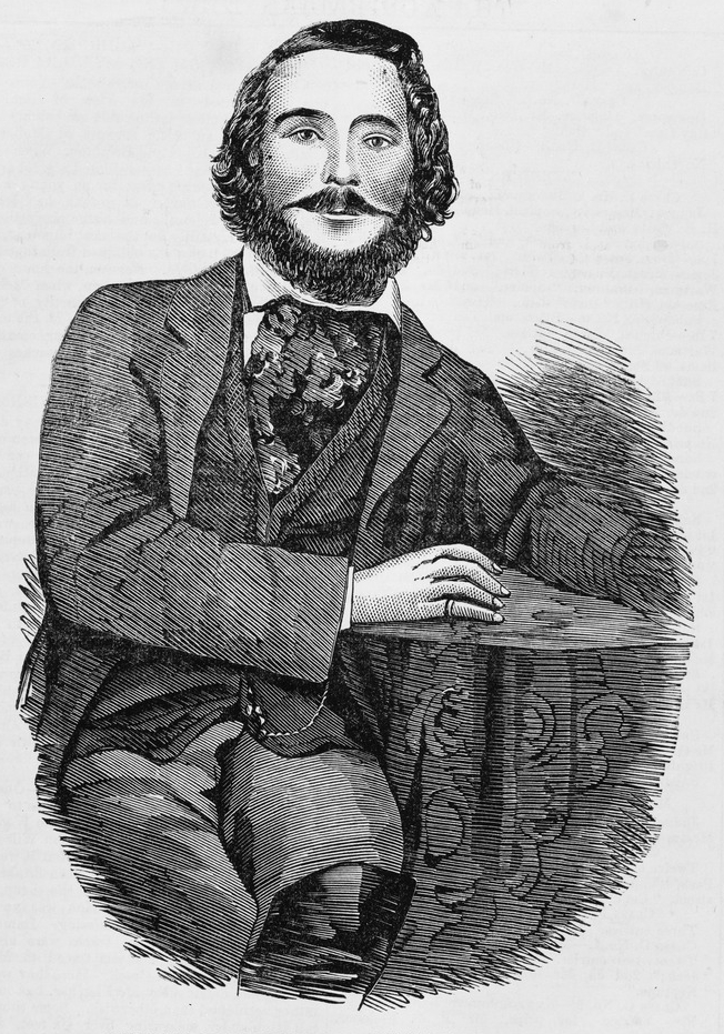 Portrait of Australian bushranger Frank Gardiner.